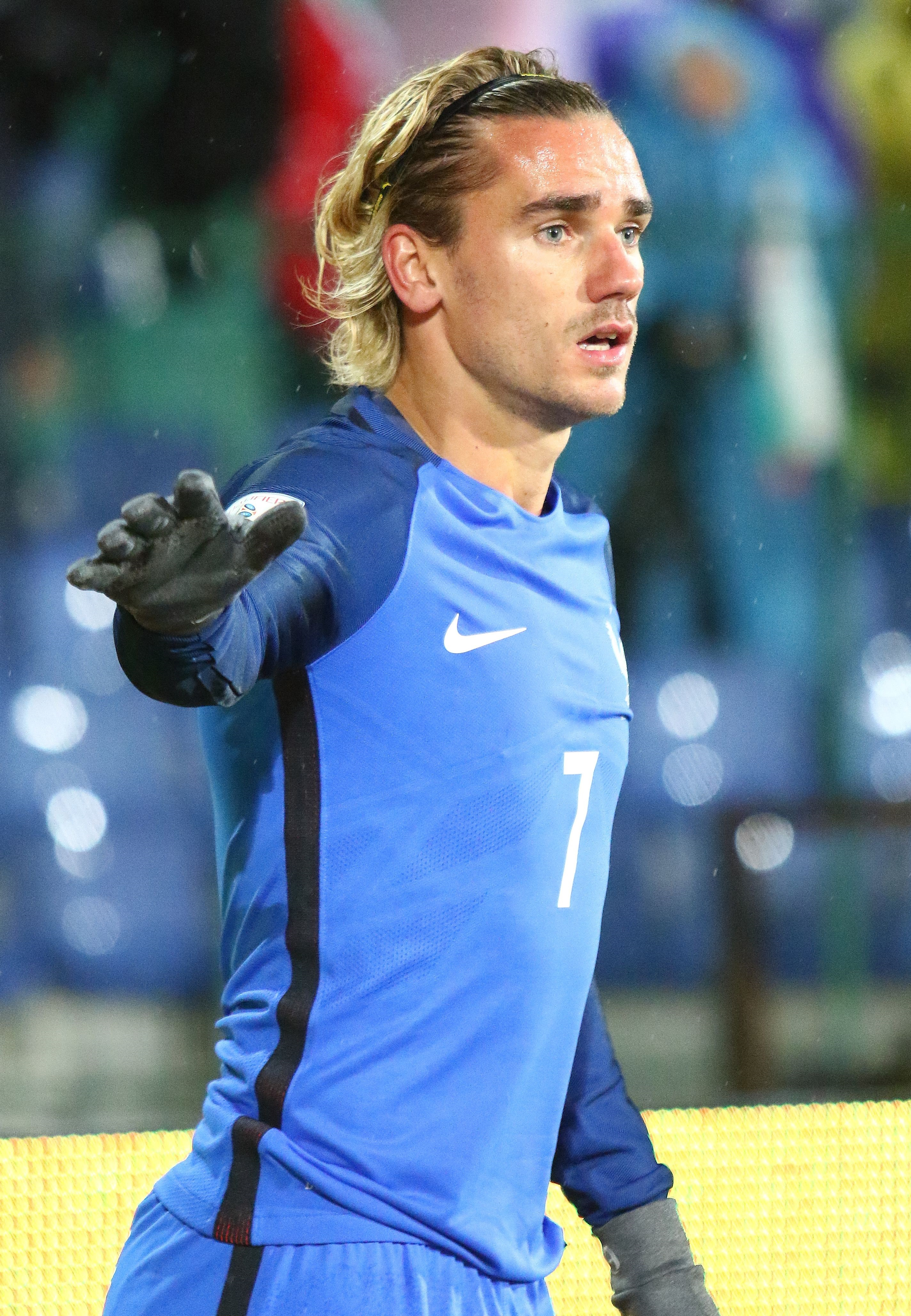 Antoine Griezmann playing for the France national team against Bulgaria in October 2017.